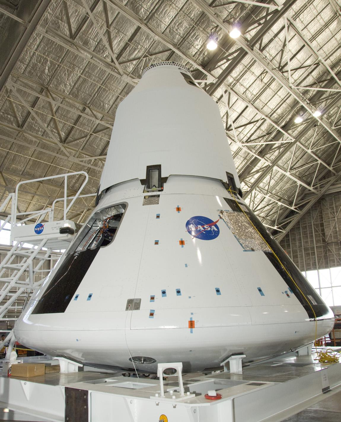 The Orion flight test crew module that will be used for the Orion Launch Abort System Pad Abort 1 flight test is shown with its adapter cone that attaches the abort system’s rocket motor to the module. Instrumentation installation and integration was conducted at NASA’s Dryden Flight Research Center over an 18-month period in 2008 and 2009 in preparation for the pad abort flight test.